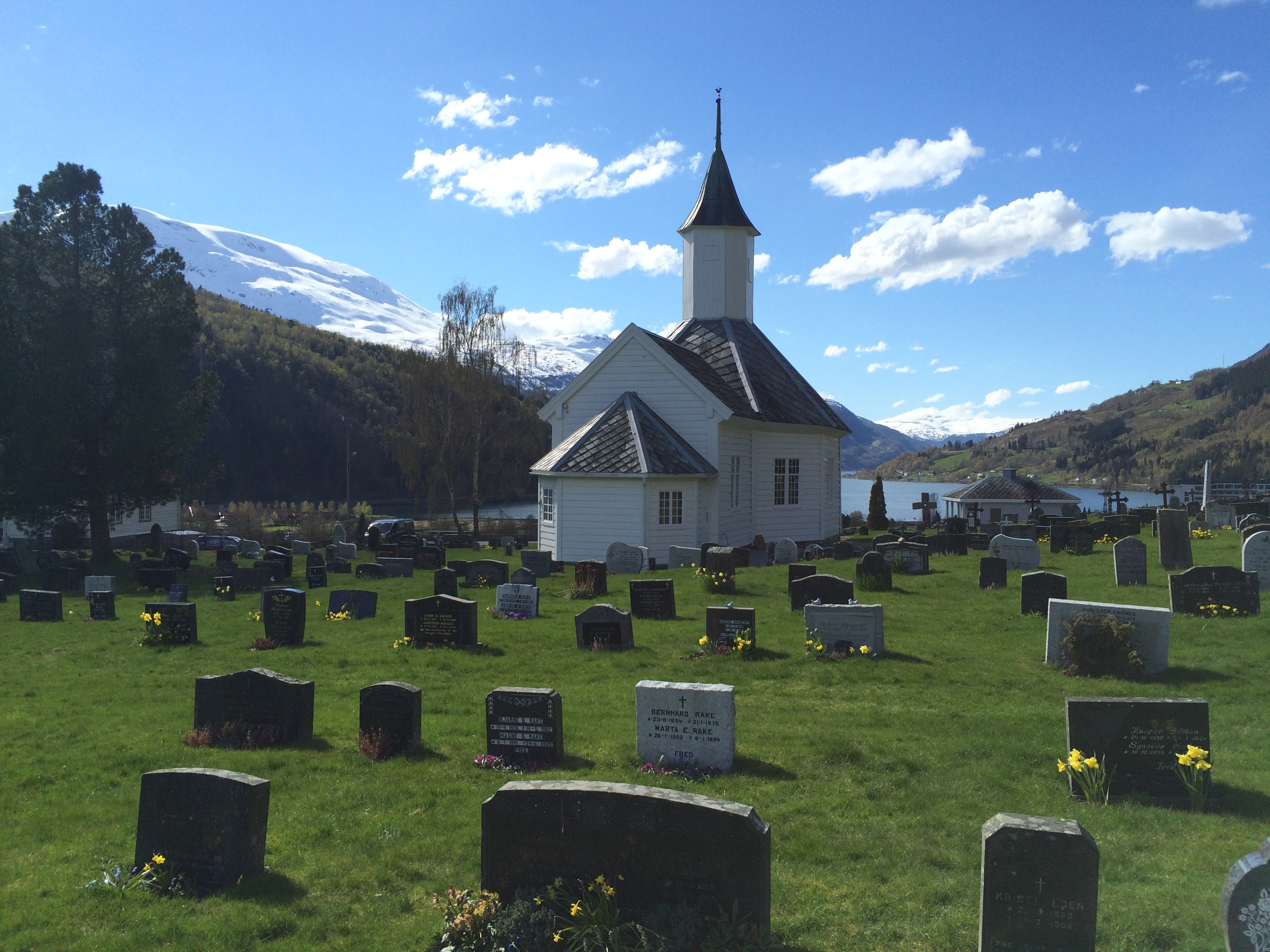 Loen Church in Loen, Stryn Municipality, Sogn og Fjordane, Norway. 28th April, 2015.